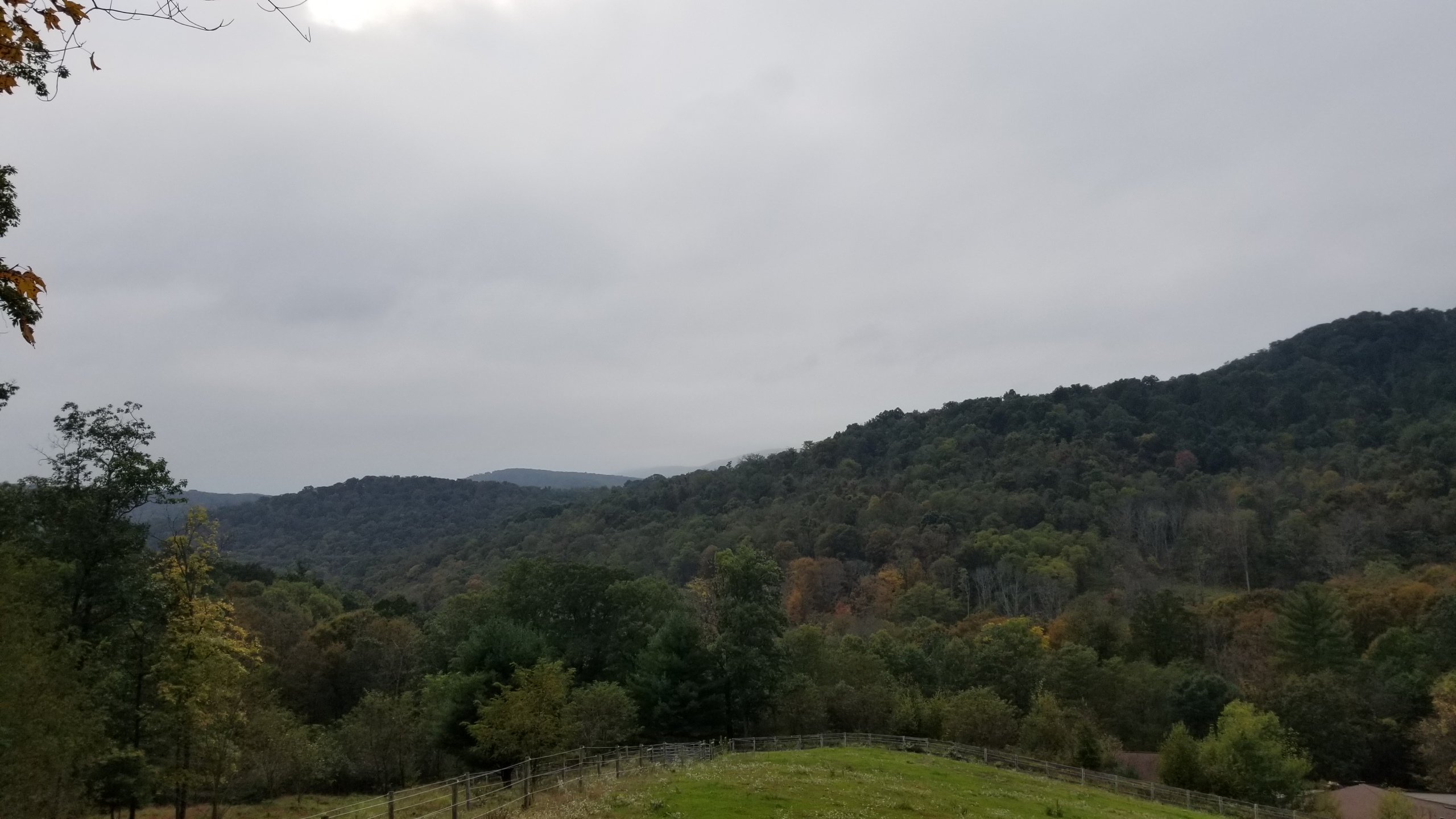 This a image of a rural lanscape in Centre county, Pennsylvania